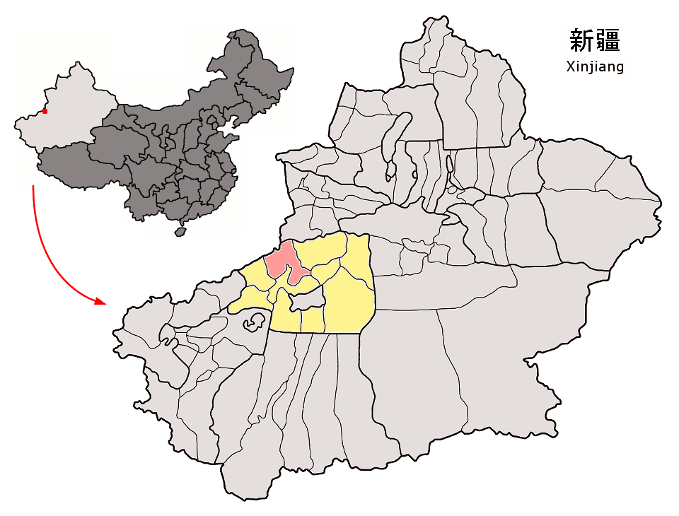 Location of Wensu County (pink) and Aksu Prefecture (yellow) within Xinjiang autonomous region of China Map drawn in september 2007 using various sources, mainly : Xinjiang Uygur autonomous region administrative regions GIS data: 1:1M, County level, 1990 Xinjiang Counties map from